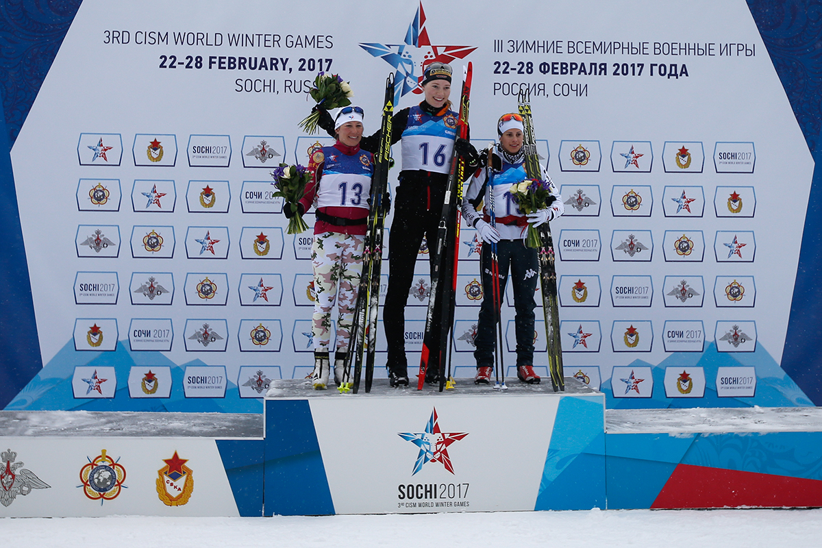 Коралин Томас Хюге (Франция), Тереза Эльчхорн (Германия) и Франческа Баудин (Италия). Лыжные гонки, женщины, 10 км. III Зимние Всемирные военные игры. Лыжно-биатлонный комплекс «Лаура», Сочи, Россия. 24 февраля 2017. Фото Alexander Safonov/CISM2017Coraline THOMAS HUGUE (France), Theresa ELCHHORN (Germany) and Francesca BAUDIN (Italy). Cross Country Skiing, Women, 10 km. 3rd CISM World Winter Games. Laura Cross-Country Ski&Biathlon Centre, Sochi, Russian Federation. February 24, 2017. Photo by Alexander Safonov/CISM2017